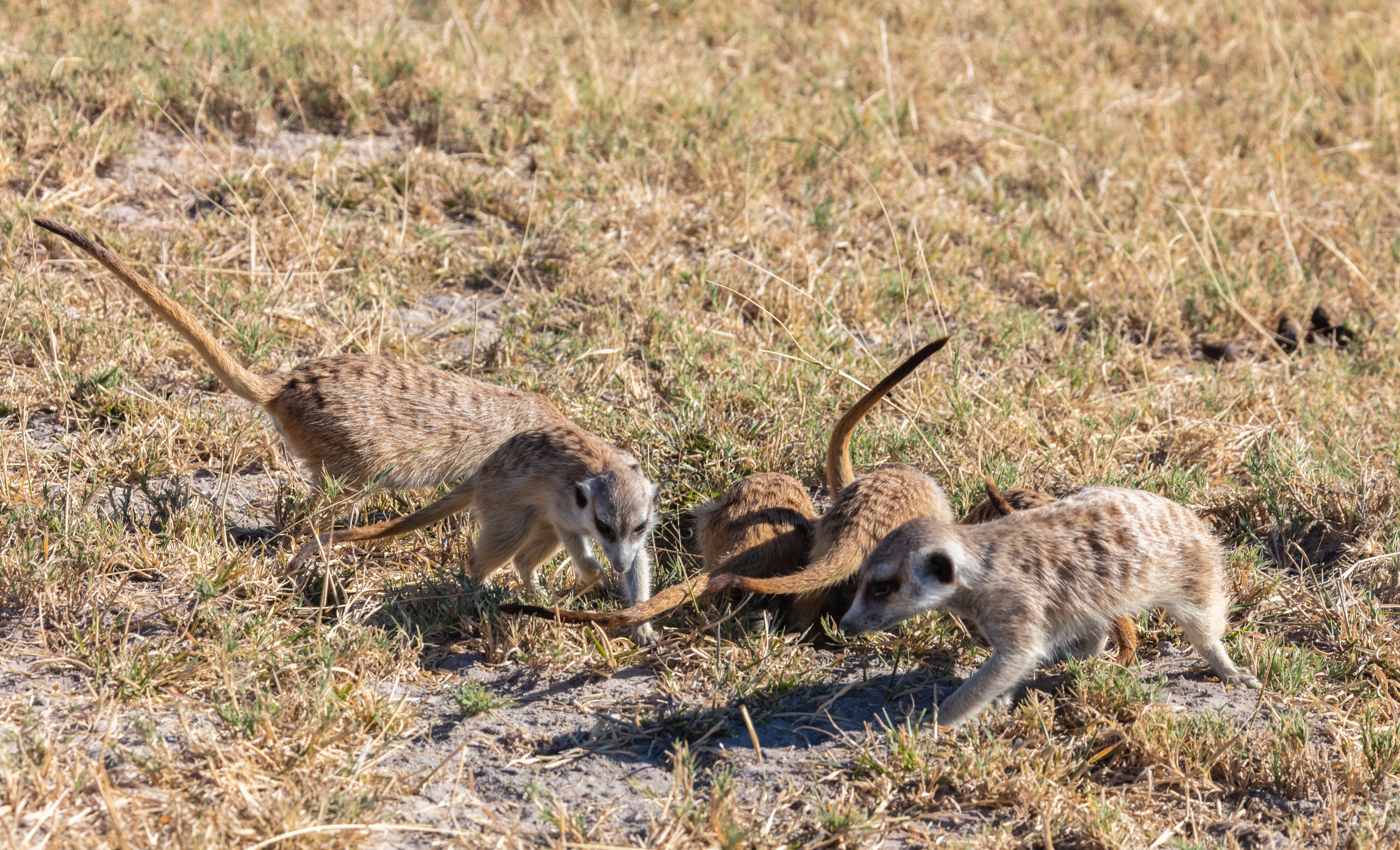 Meerkats (Suricata suricatta), Makgadikgadi Pans National Park, Botswana